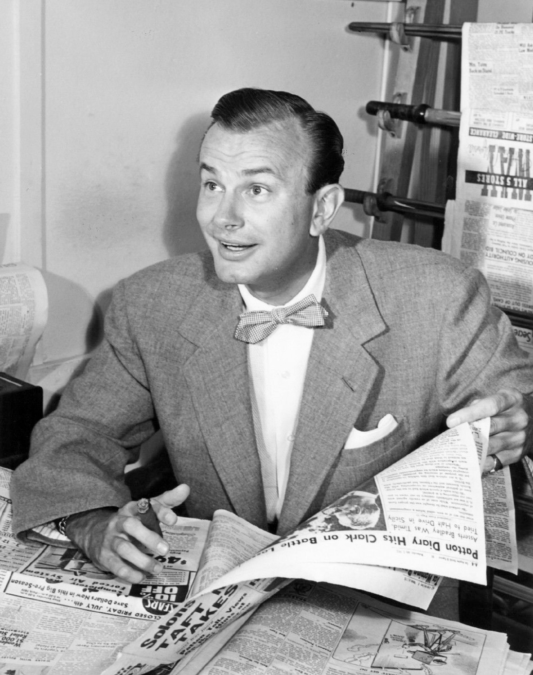 Photo of Jack Paar from his early 1950s television game show Up to Paar.